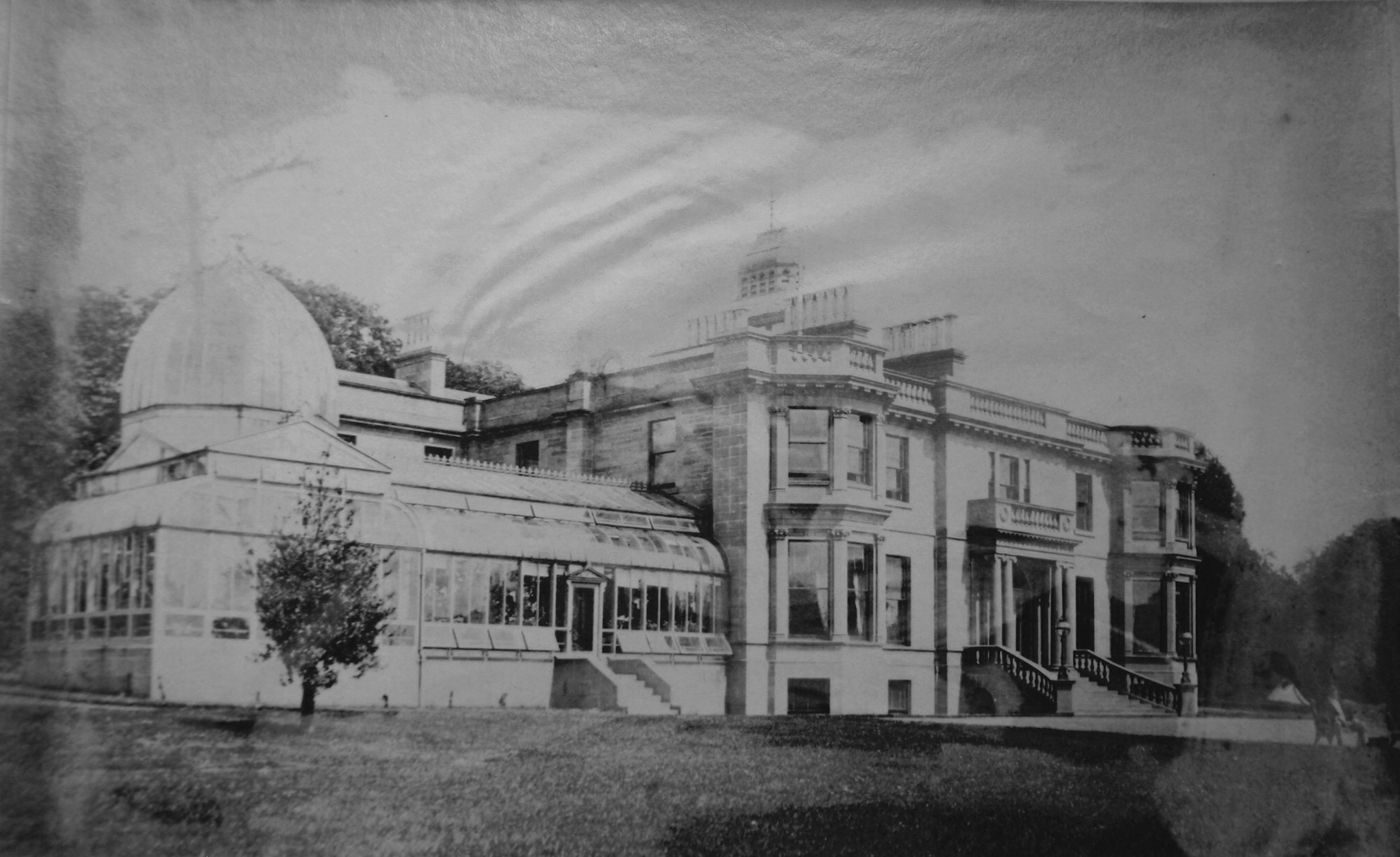 Balruddery House circa 1884 after renovations by JF and JM White